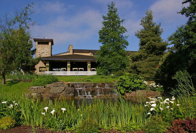 The Lodge (clubhouse for the Roman Road and Montgomerie golf courses), Celtic Manor Resort, Newport, Wales